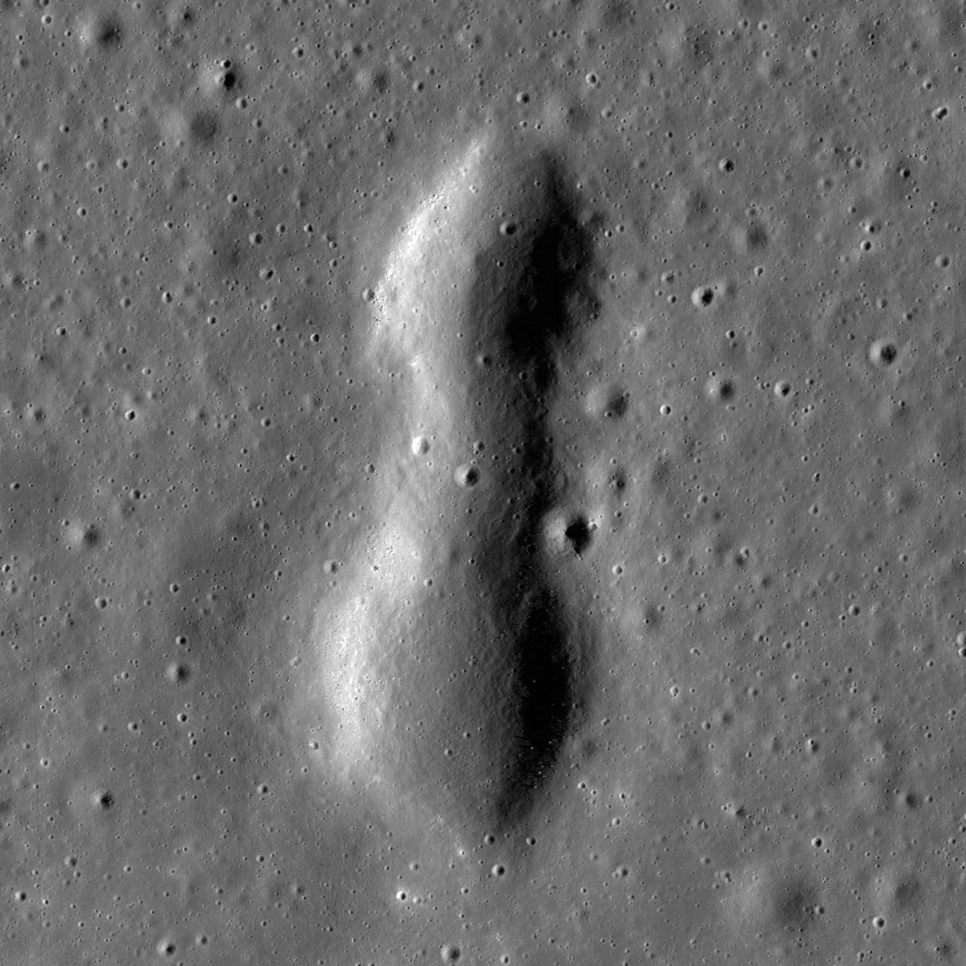 Small (2.0×0.8 km) crater Julienne on the Moon, in southeastern Mare Imbrium (a map). Centered at 26.05°N, 3.10°E (according to JMARS). Photo by Lunar Reconnaissance Orbiter, made with Narrow Angle Camera 22 November 2009 from altitude 138 km. Sun elevation is 22.0°. Size of the photo is 2.67×2.67 km, north is up.